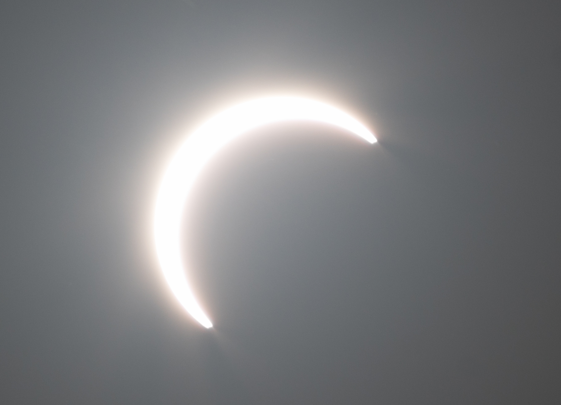 Solar eclipse 2020 captured with a Pentax SMC 400mm f5.6 with a ten stop ND filter on